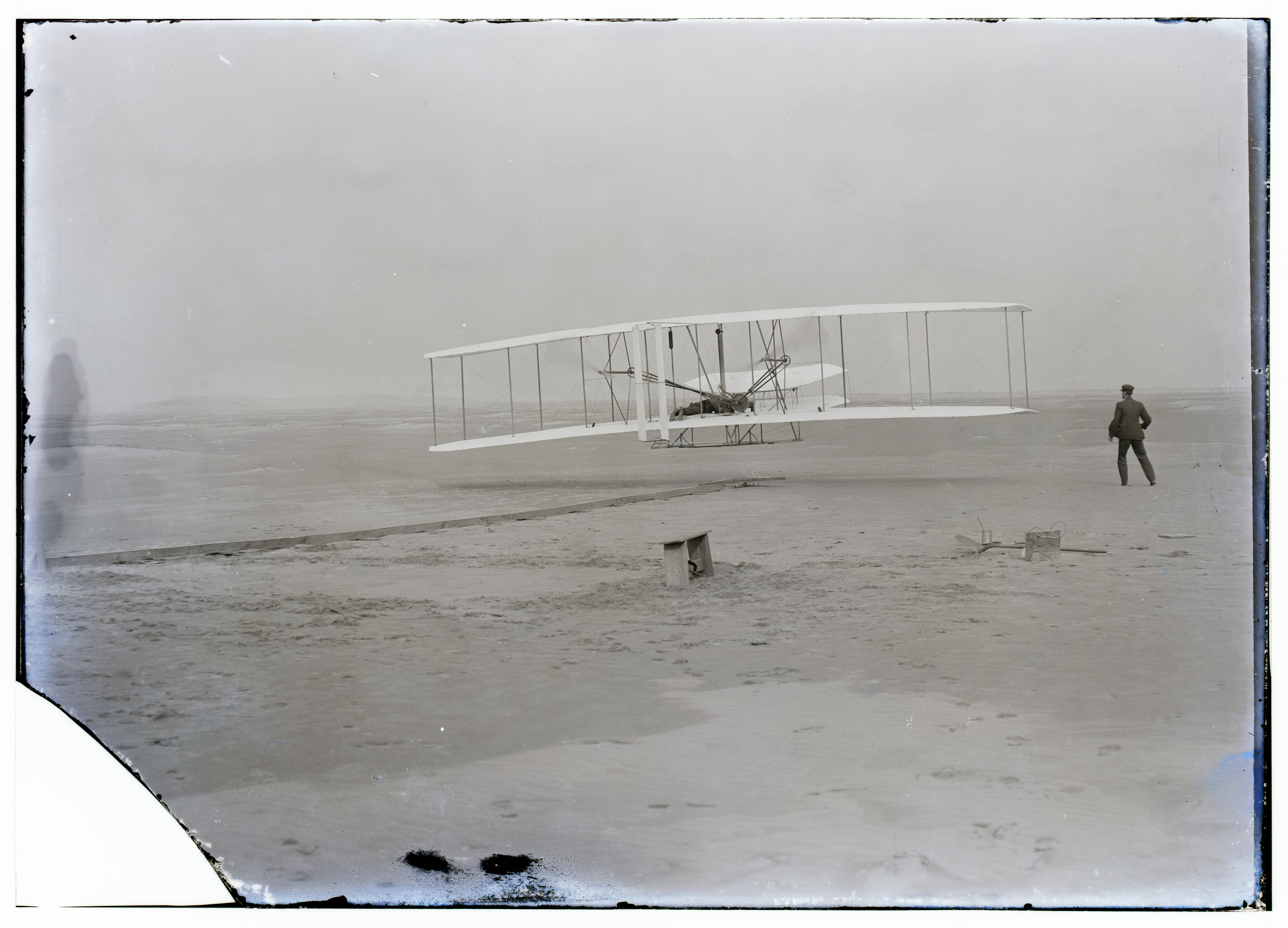 First flight, 120 feet in 12 seconds, 10:35 a.m.; Kitty Hawk, North Carolina Photograph shows the first powered, controlled, sustained flight. SUMMARY: Negative shows Orville Wright at the controls of the machine, lying prone on the lower wing with hips in the cradle which operated the wing-warping mechanism. Wilbur Wright running alongside to balance the machine, has just released his hold on the forward upright of the right wing. The starting rail, the wing-rest, a coil box, and other items needed for flight preparation are visible behind the machine. MEDIUM: 1 negative : glass, dry plate ; 5 × 7 in. Forms part of: Glass negatives from the Papers of Wilbur and Orville Wright.